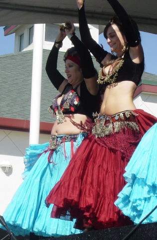 Tribal Belly Dancers. This picture was taken on Sept 26, 2004 at the Pacific Coast Fog Fest in Pacifica, CA, USA.